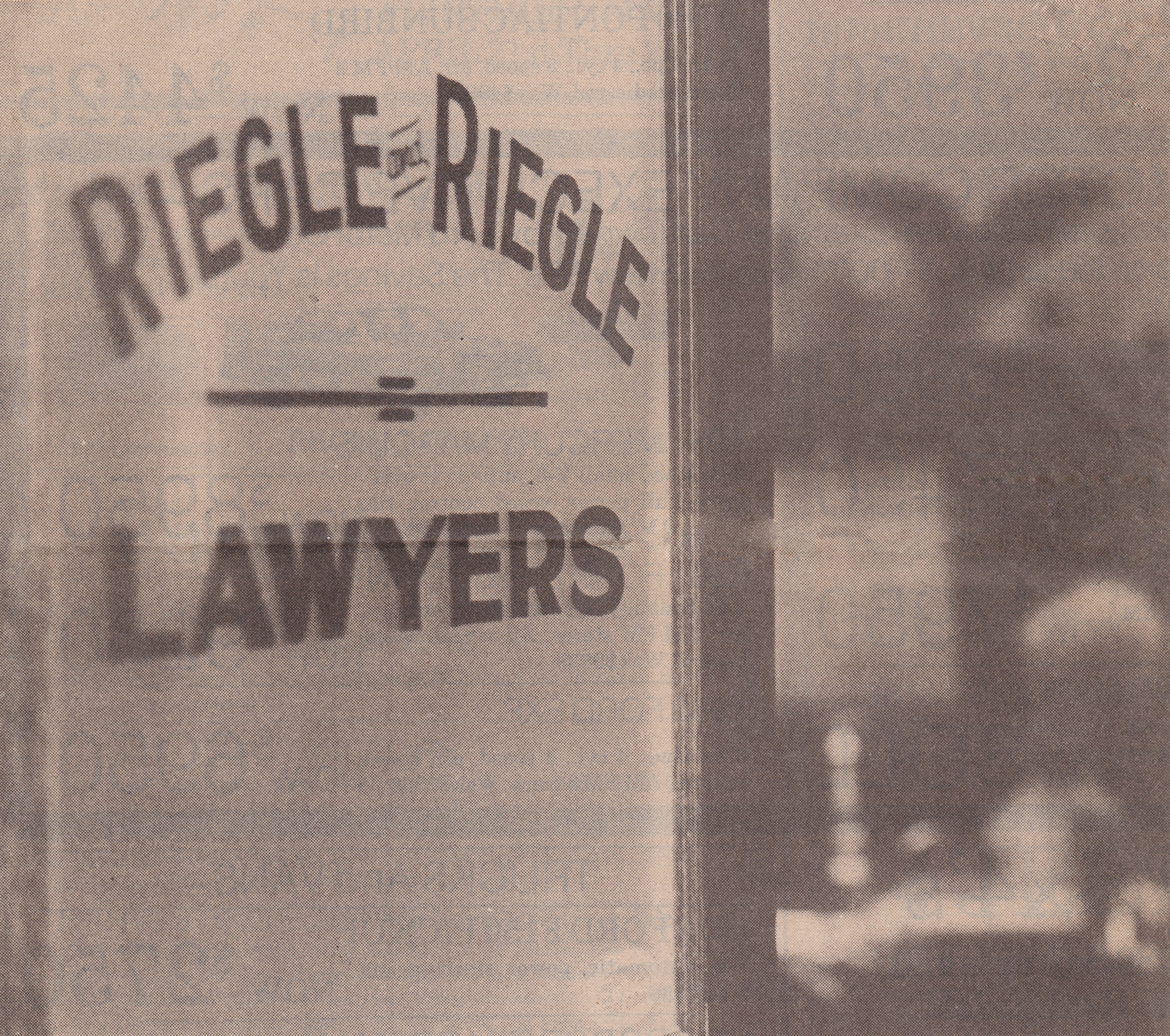 Law Office @ The Palace Building, Commercial Street, Emporia, KS